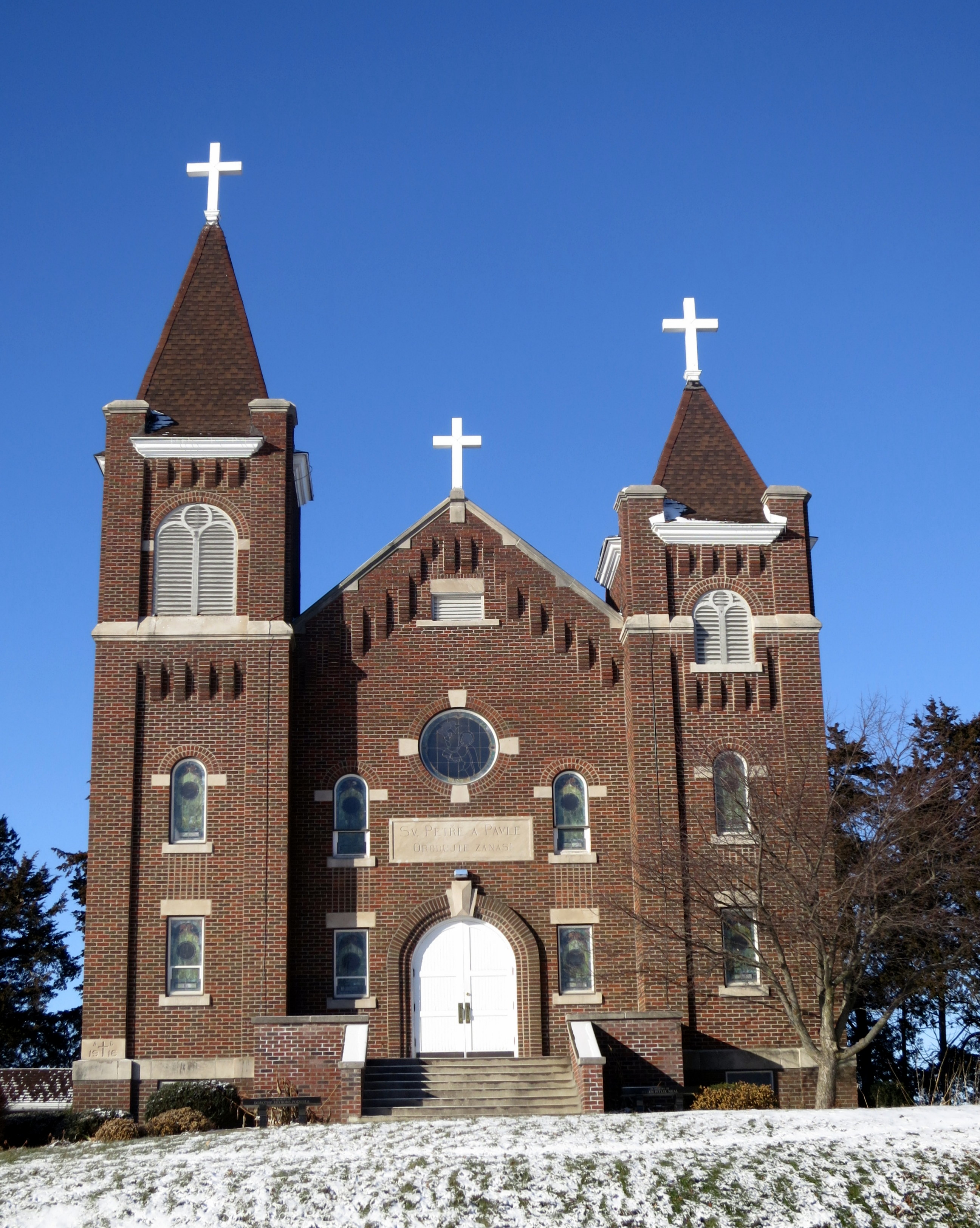 Saints Peter and Paul Catholic Church (Solon, Iowa) - exterior 2